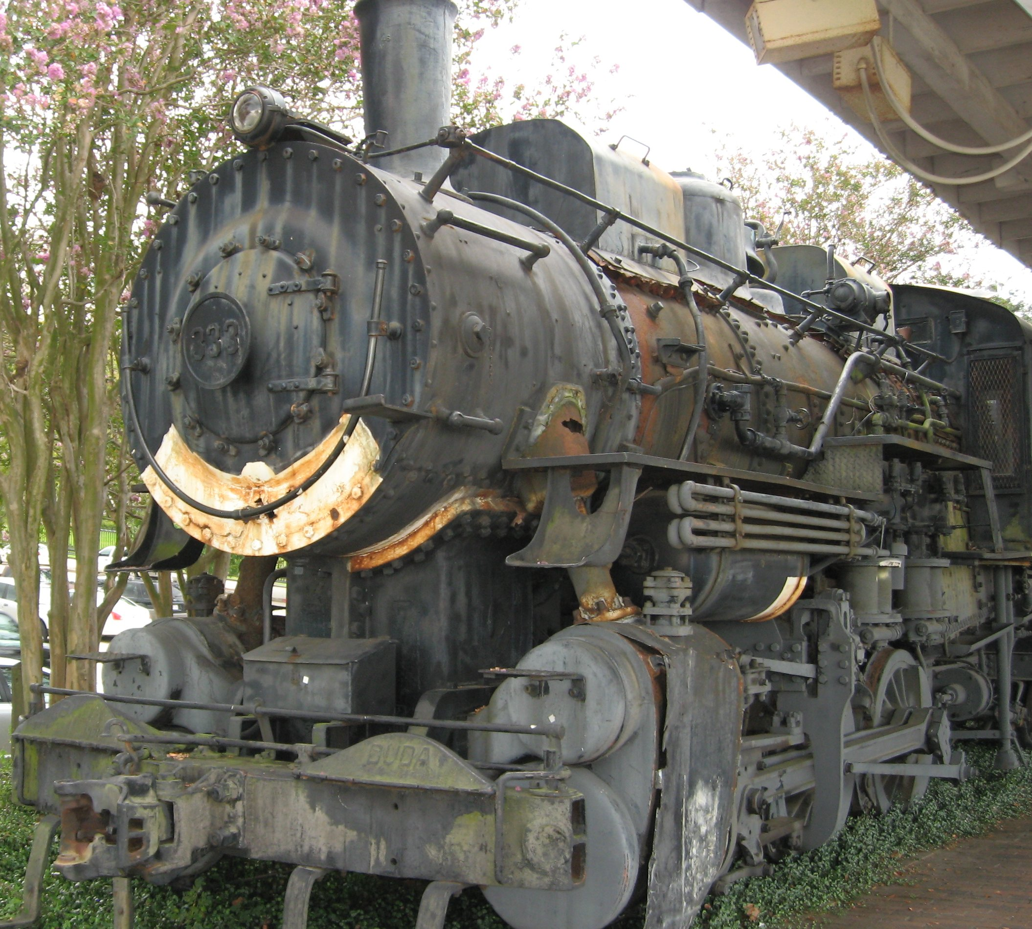 Yazoo and Mississippi Valley Railroad